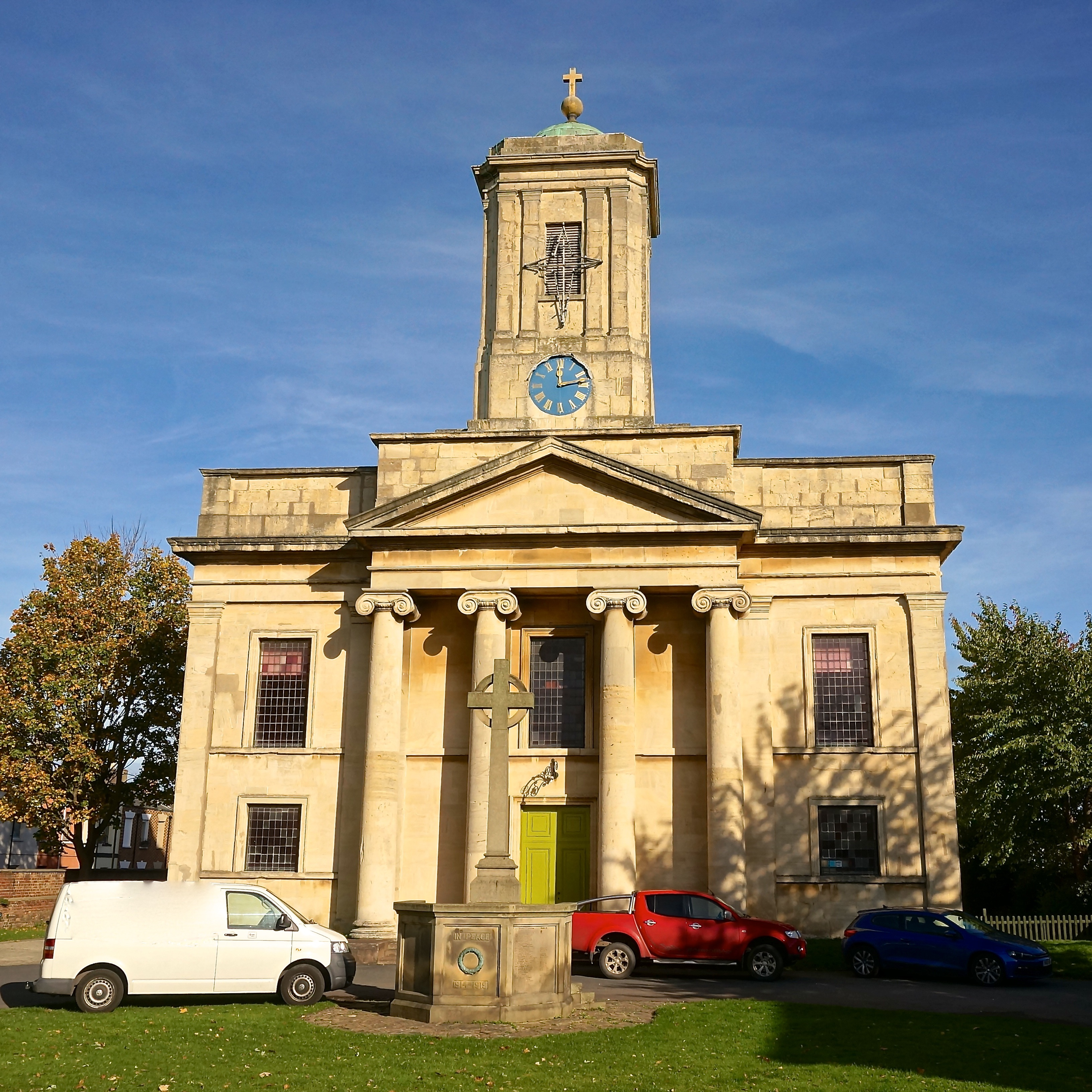 St Paul's parish church, St Paul's Road, Cheltenham, Gloucestershire, seen from south-southwest, with the parish war memorial in front